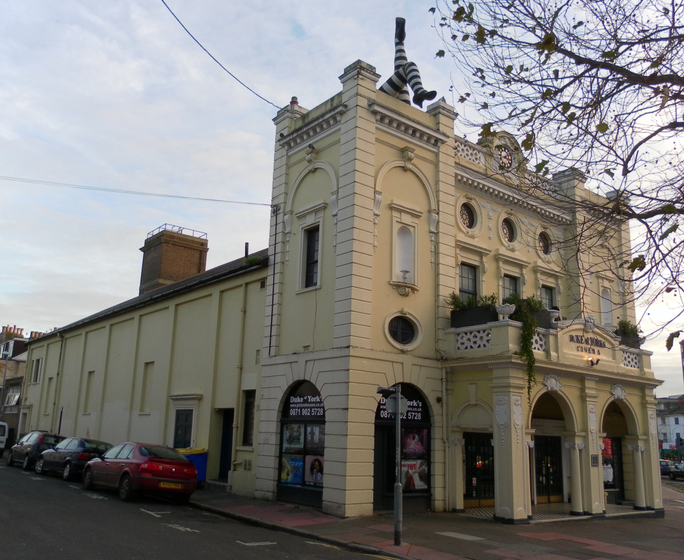 Duke of York's Picture House, Preston Circus, Brighton, City of Brighton and Hove, England. A Baroque-style cinema designed in 1910 by local architects Clayton & Black. In continuous use since then. The giant legs on the roof came from a closed cinema in Oxford. Listed at Grade II by English Heritage (NHLE Code 1380741)